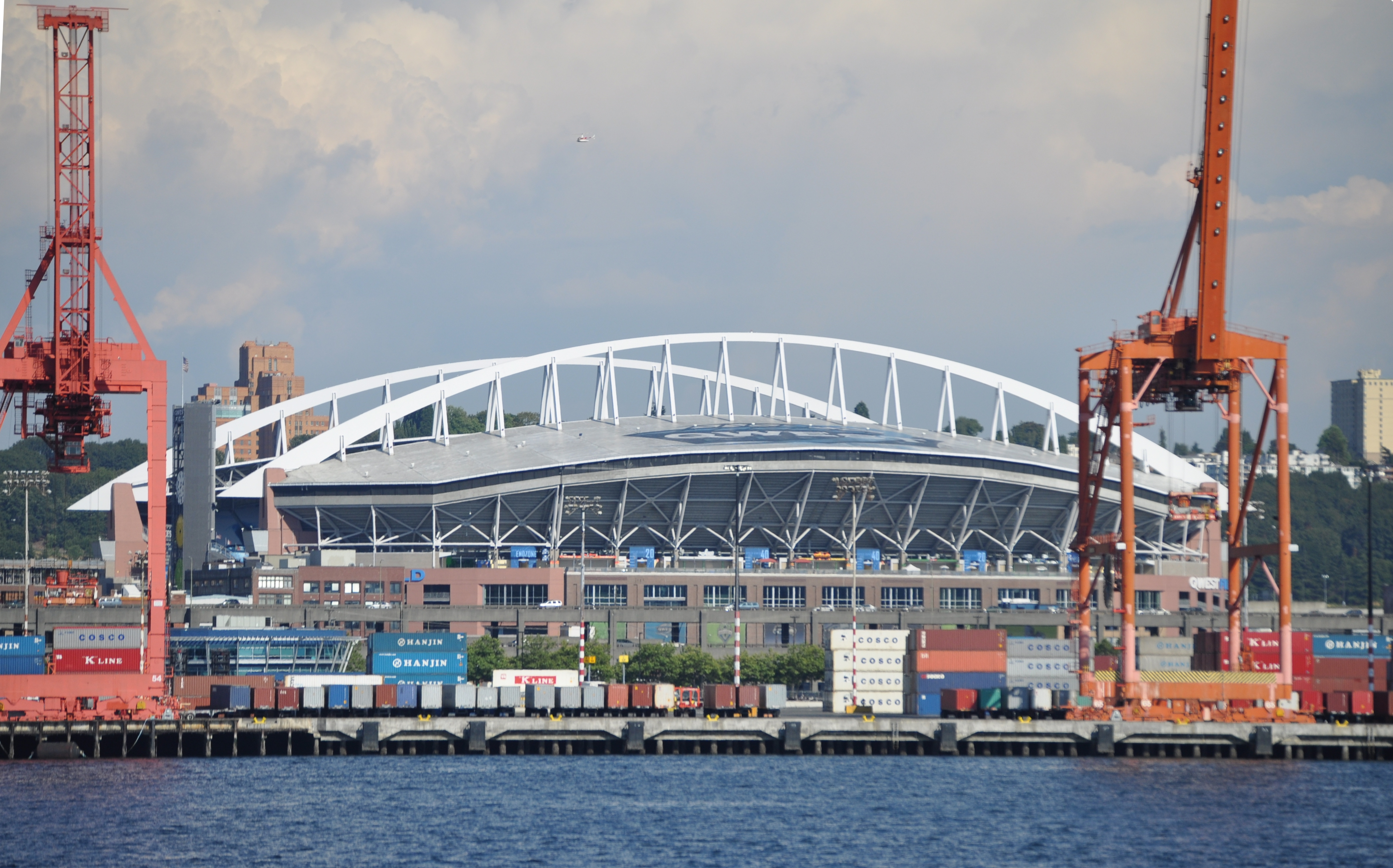 Qwest Field, Seattle, Washington, USA, seen from Elliott Bay.